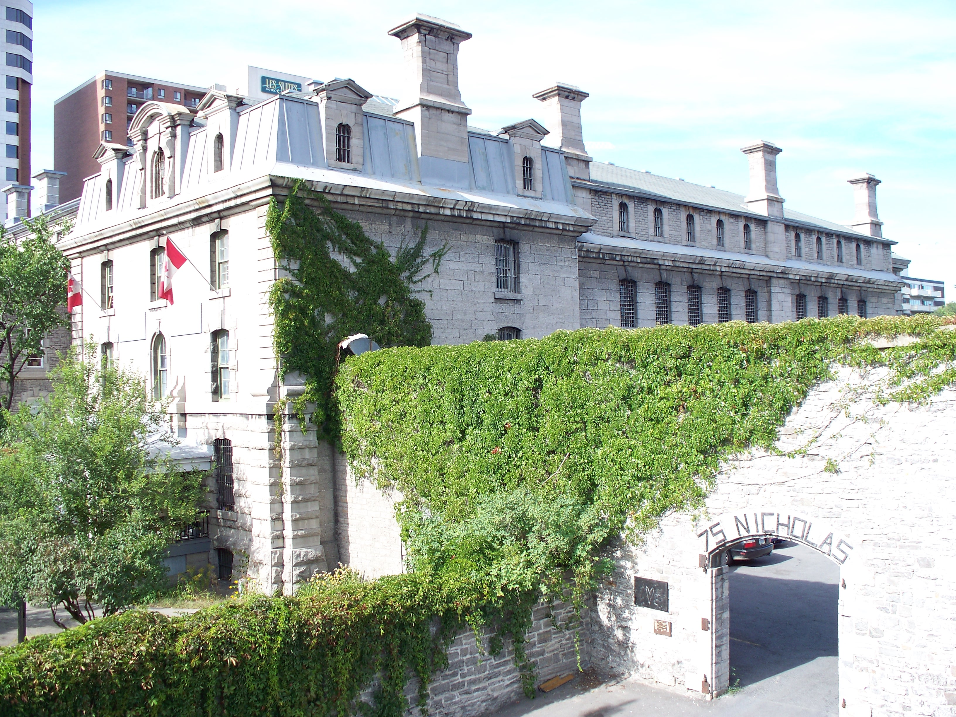 Ottawa Jail Hostel, formerly Carlton County Gaol and Nicholas Street Gaol, in Ottawa, Ontario, Canada.